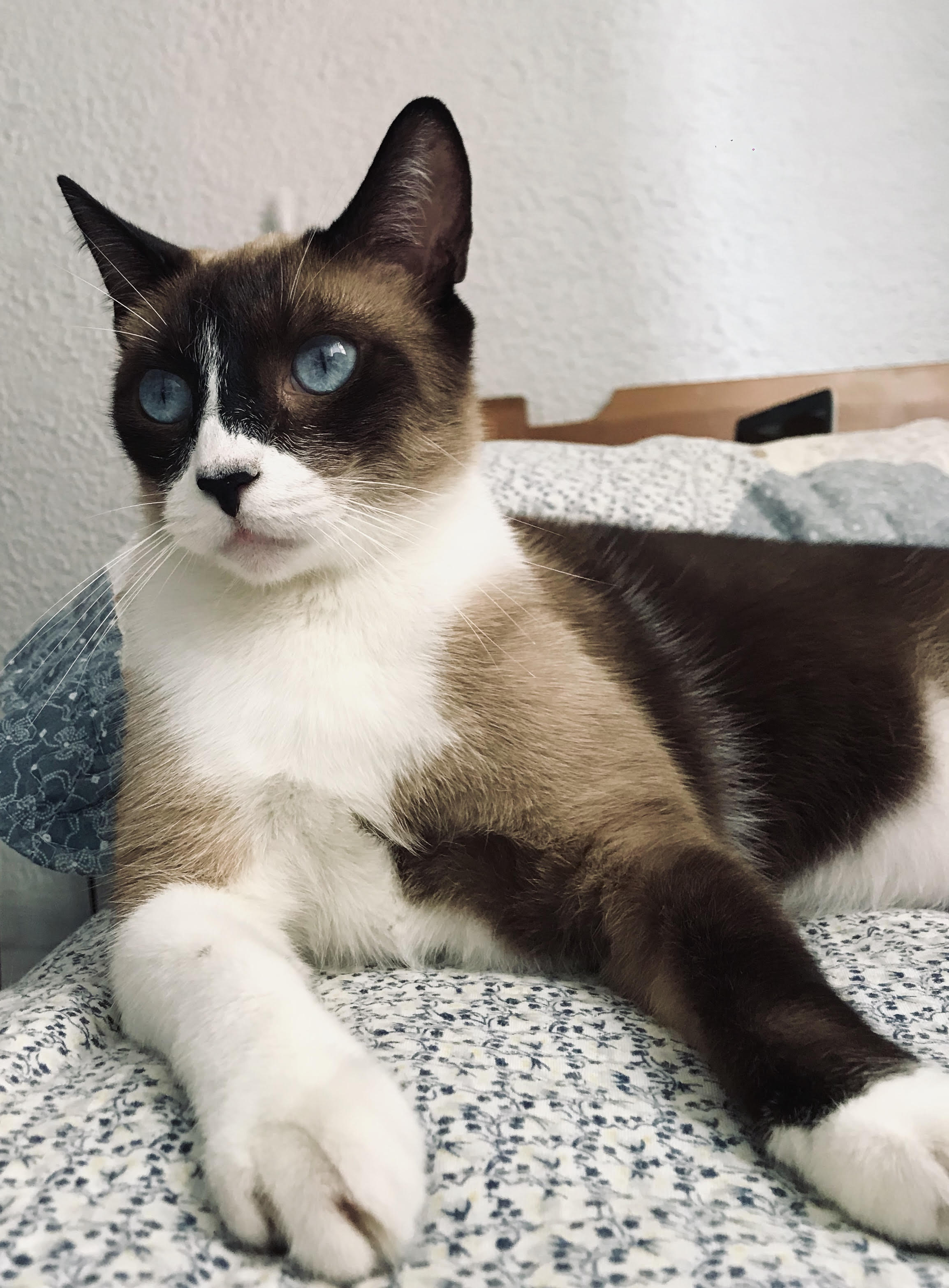 Male Snowshoe cat